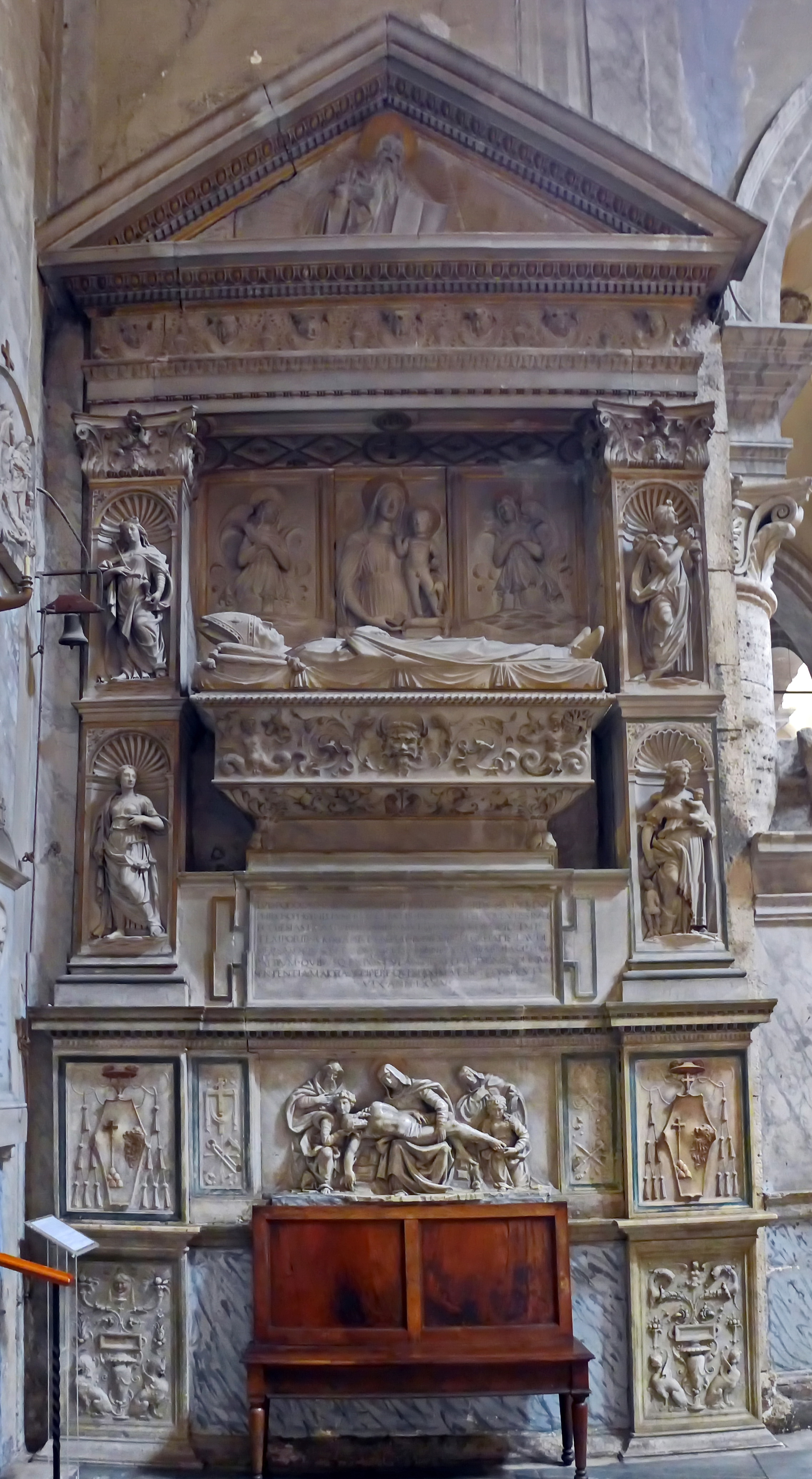 Funeral monument for Cardinal Ludovico Podocataro; Santa Maria del Popolo, Rome